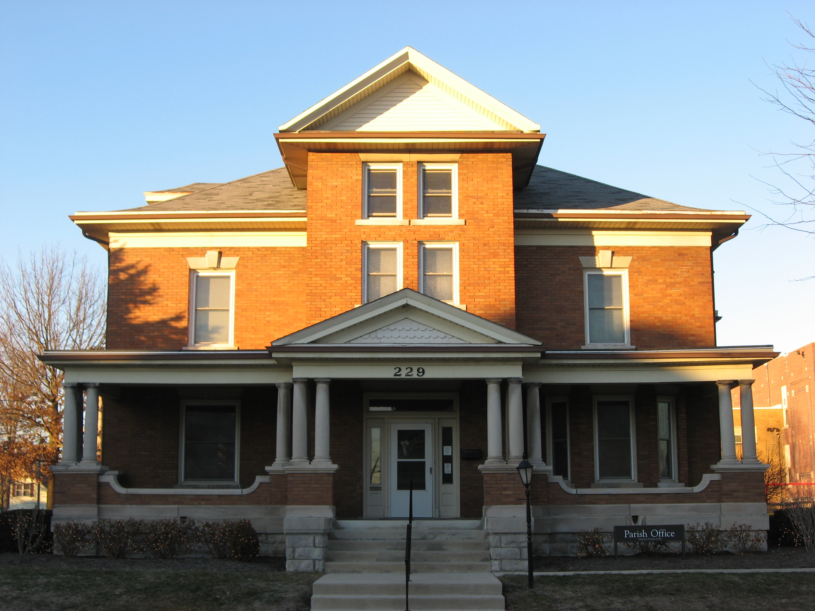 Front of the rectory of Immaculate Conception Catholic Church, located at 229 W. Anthony Street in downtown Celina, Ohio, United States. Built in 1908, the church was listed on the National Register of Historic Places as a part of the Cross-Tipped Churches of Ohio Thematic Resources.